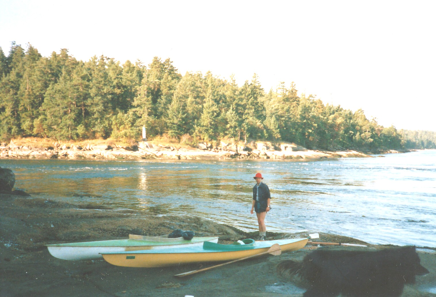 Tidal currents through Dodd Narrows can be 7-8 knots. False Narrows, to the east of Mudge Island, has lesser currents and is usually the choice of kayakers going to the southern Gulf Islands from Nanaimo. The kayaker pictured here is visiting from Austria. The kayaks are both the venerable Frontiersman brand made in the '60's in BC. The white one, on being repaired from damage, had the cockpit modified to the extent of allowing room for the dog seen in in the foreground shadow. She logged many miles in it.